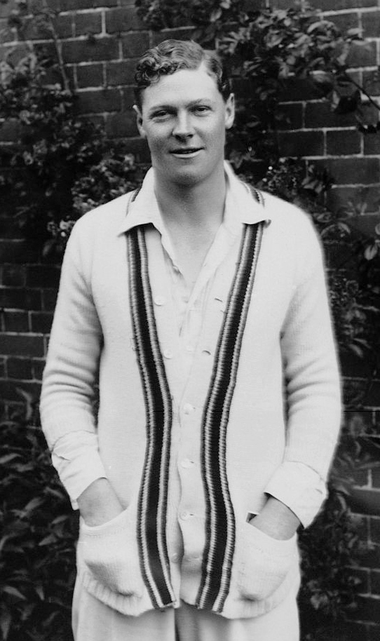 Kent and England cricketer Percy Chapman, circa 1922